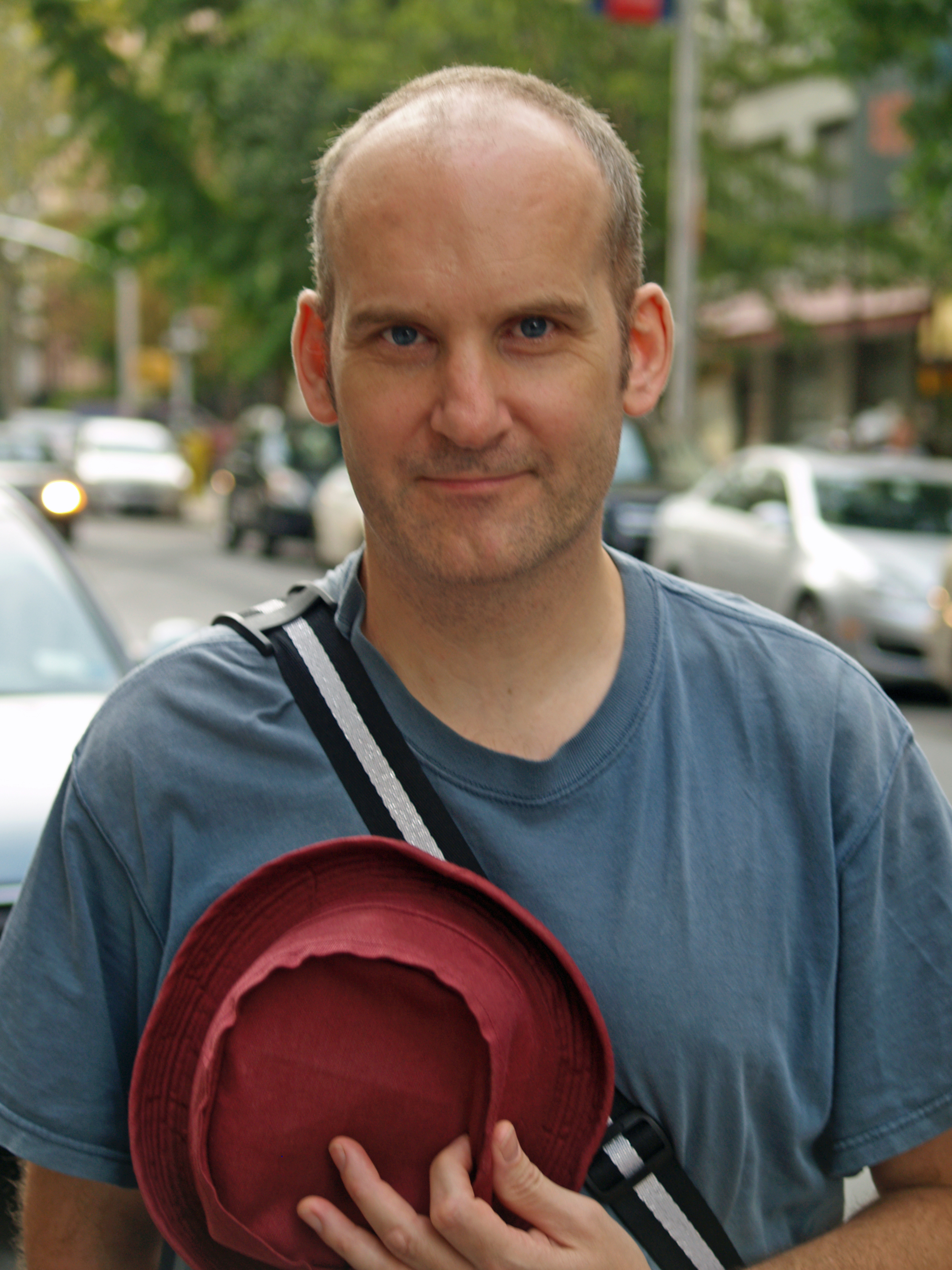 Ian MacKaye at the 2008 Brooklyn Book Festival in New York City.